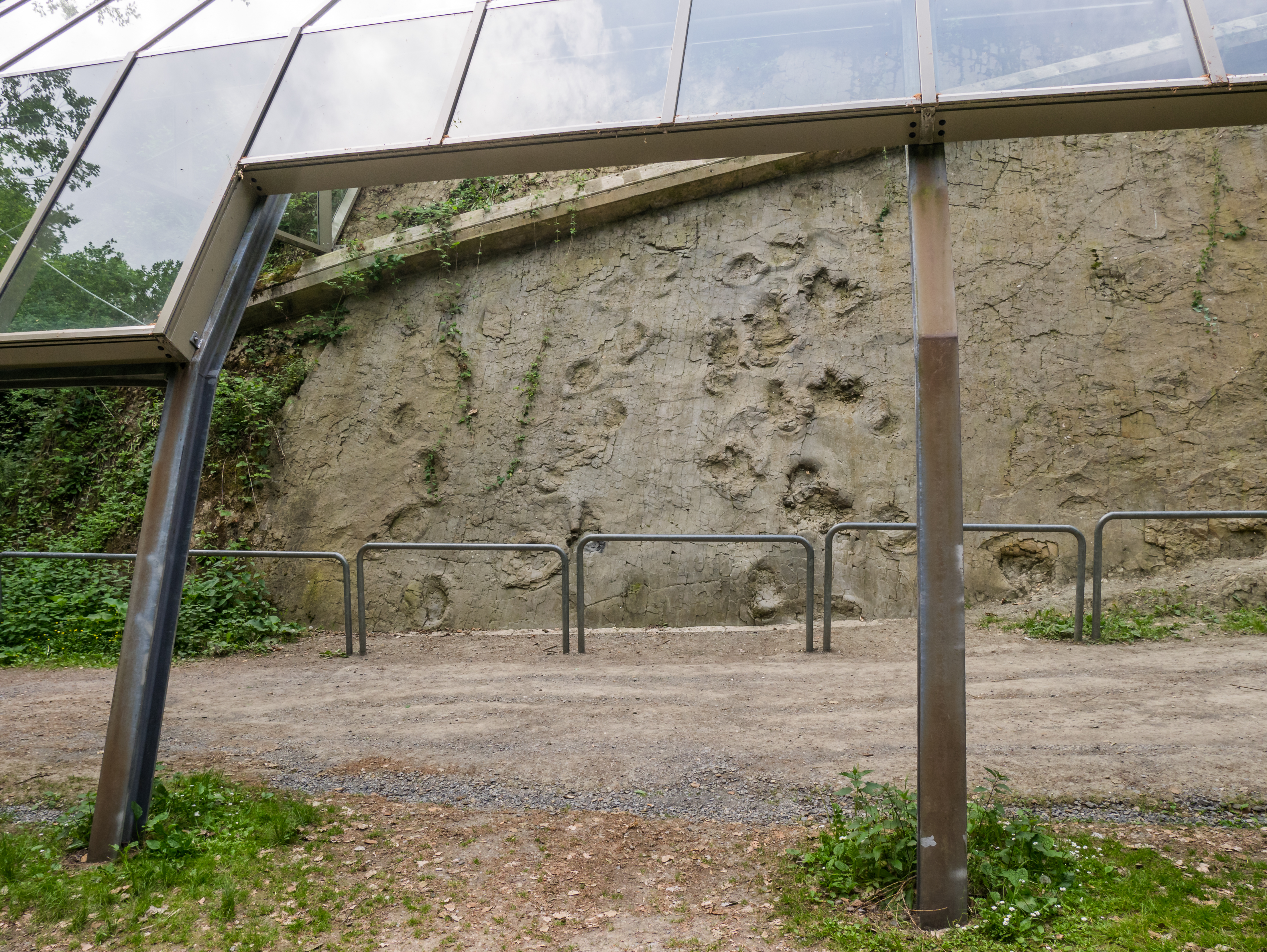 Dinosaur tracks (Sauropoda/Theropoda) at Barkhausen. Bad Essen, Osnabrück Land, Lower Saxony, Germany